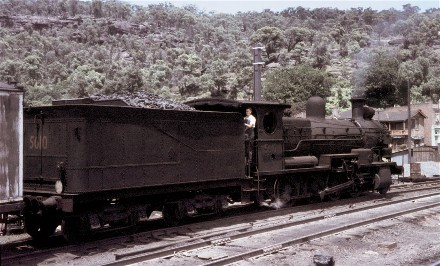 5610 stands at Hawkesbury River station with an overhead wiring worktrain.